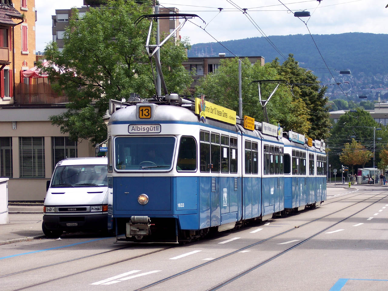 Trams in Zürich: A pair of Be 4/6 "Mirage" trams climbs up to Albisgütli on route 13, led by car 1633.